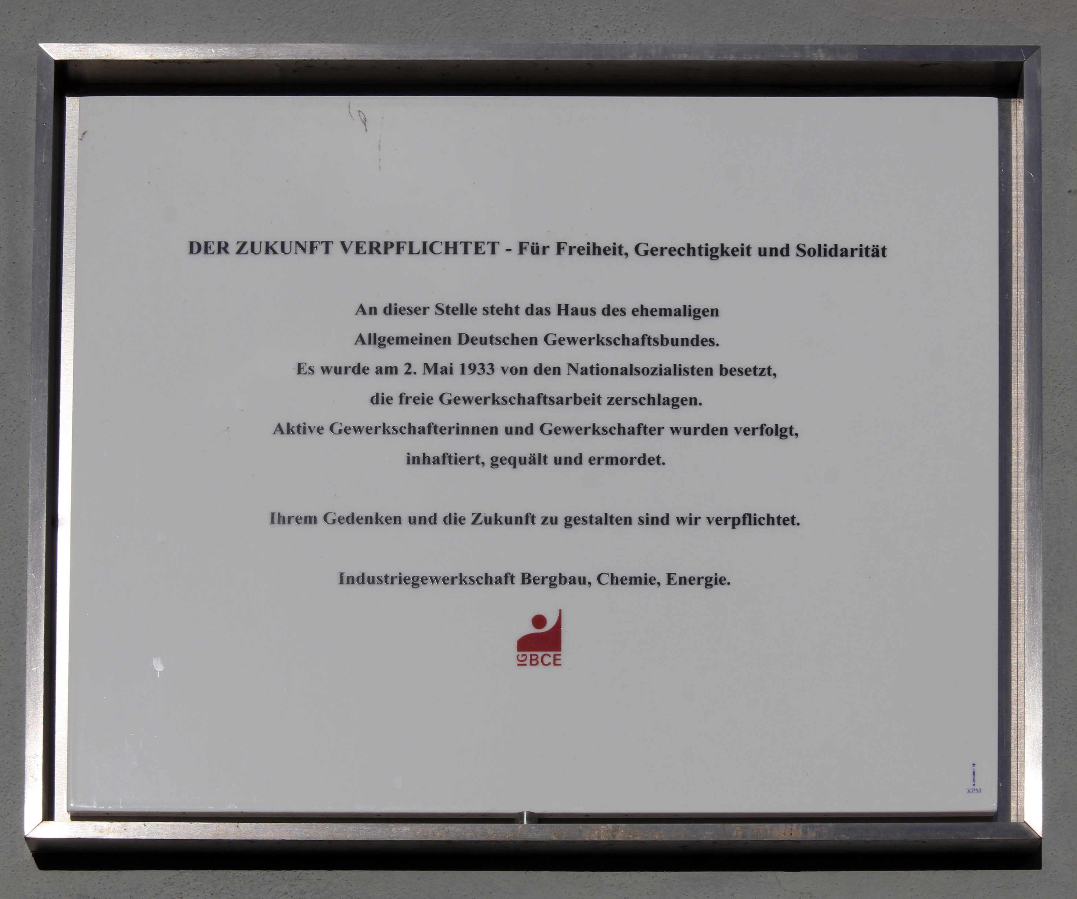 Memorial plaque, Allgemeiner Deutscher Gewerkschaftsbund, Wallstraße 65, Berlin-Mitte, Germany